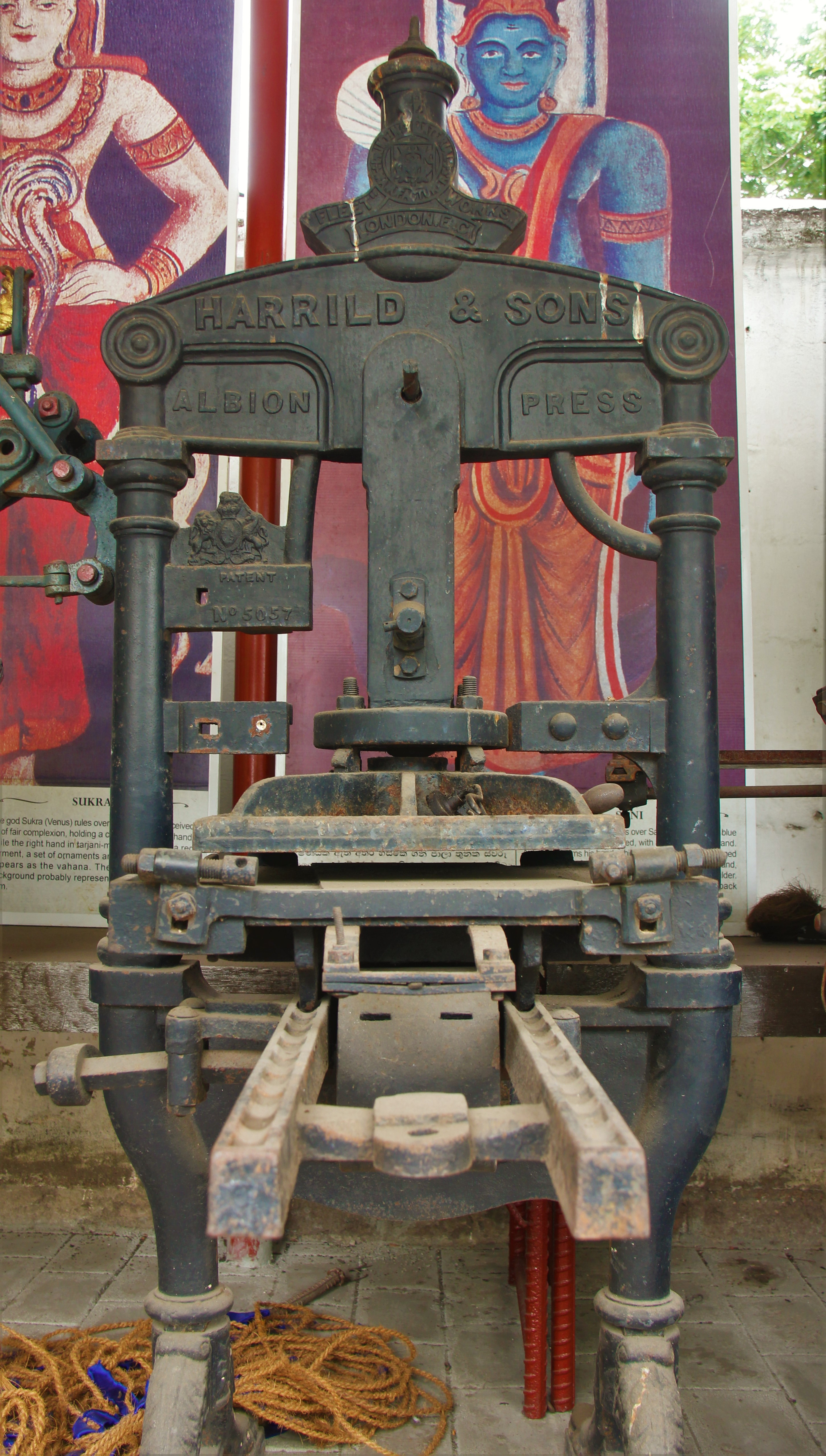 Albion press manufactured by Harrild & Sons Limited, London. Press found at (outside) Gangaramaya Temple in Colombo, Sri Lanka.